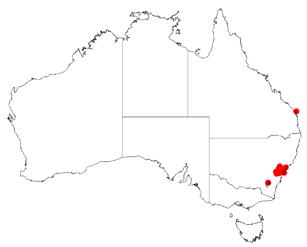 Acacia trinervata Occurrence data from Australasia Virtual Herbarium downloaded from on 8 December 2018